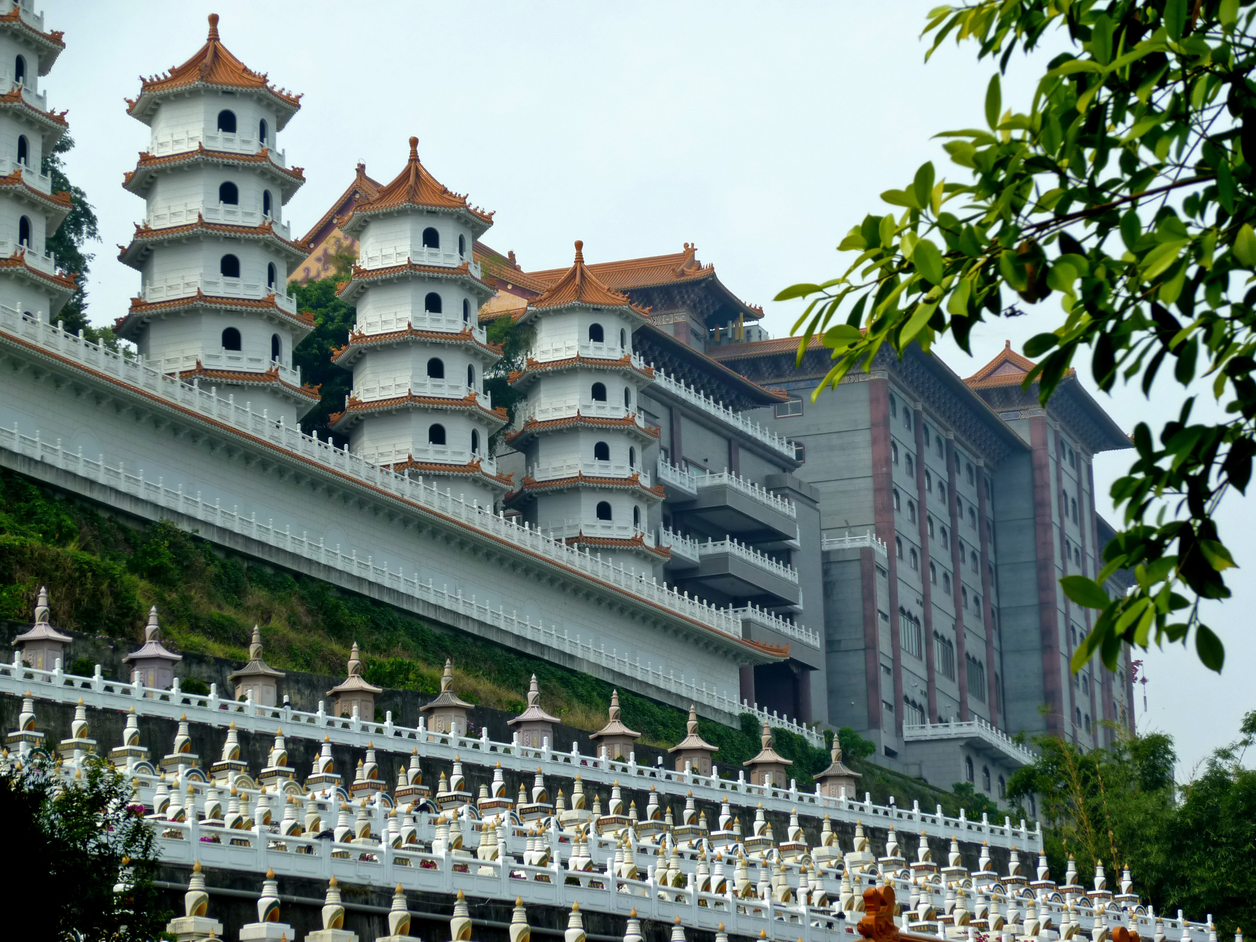 Exterior of Fo Guang Shan Monastery, Taiwan